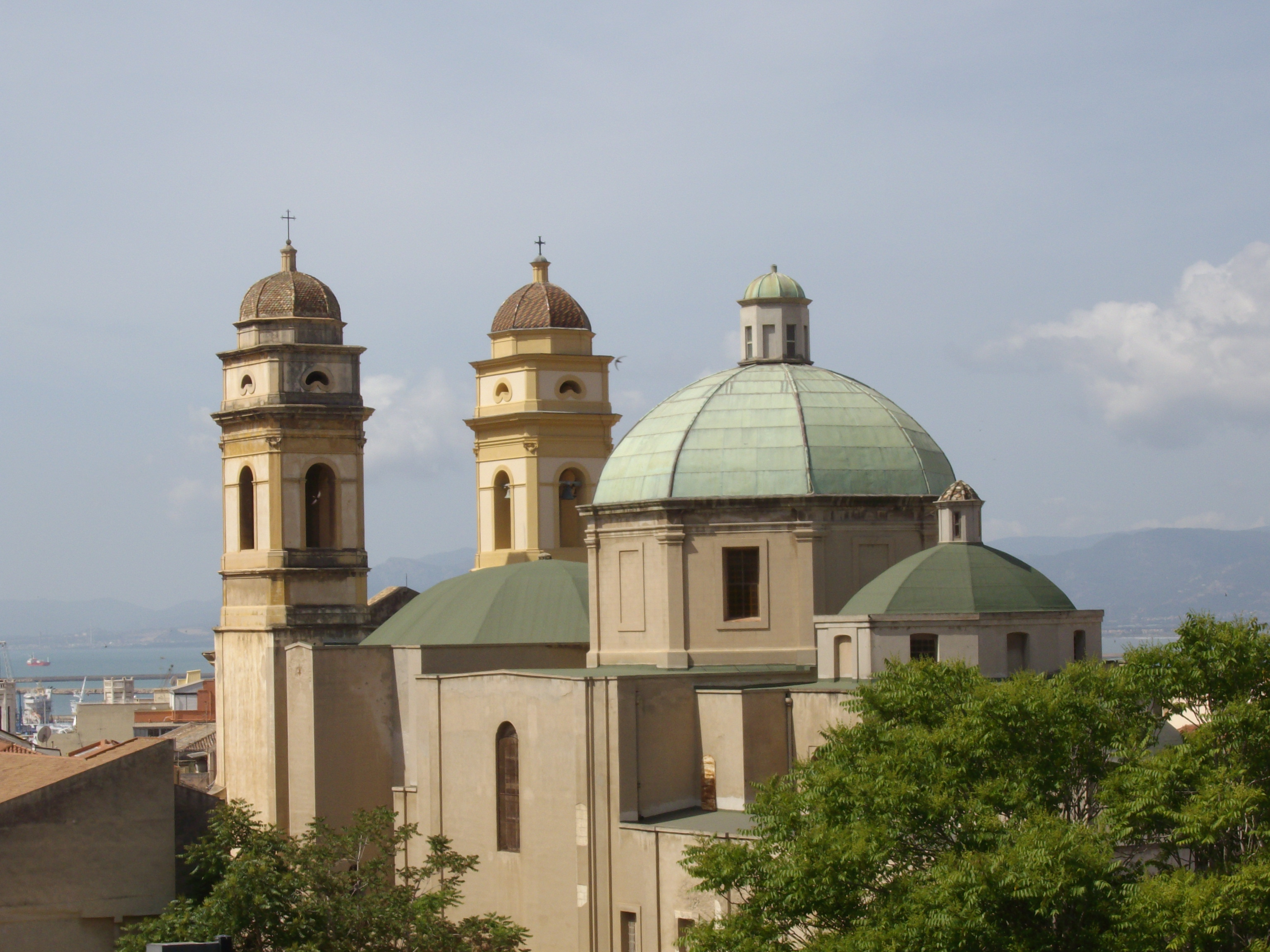 Church of Sant'Anna in Cagliari